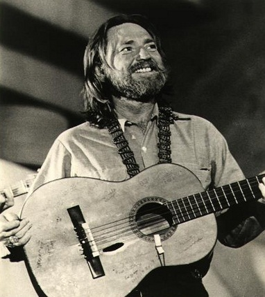 Publicity picture of Willie Nelson